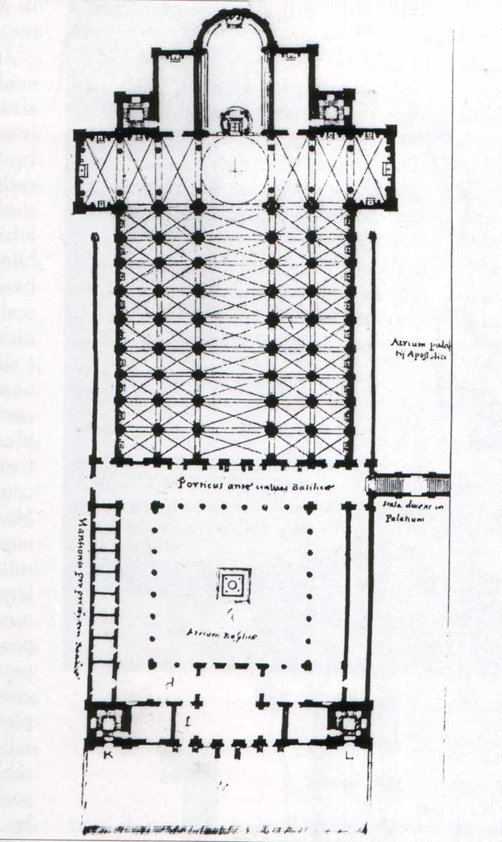 Reconstruction of project of Bernardo Rossellini to St. Peter's Basilica, designed by Martino Ferrabosco.